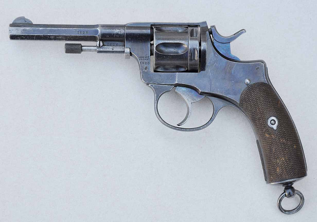 7,5 mm selvspent Nagant revolver M/1893